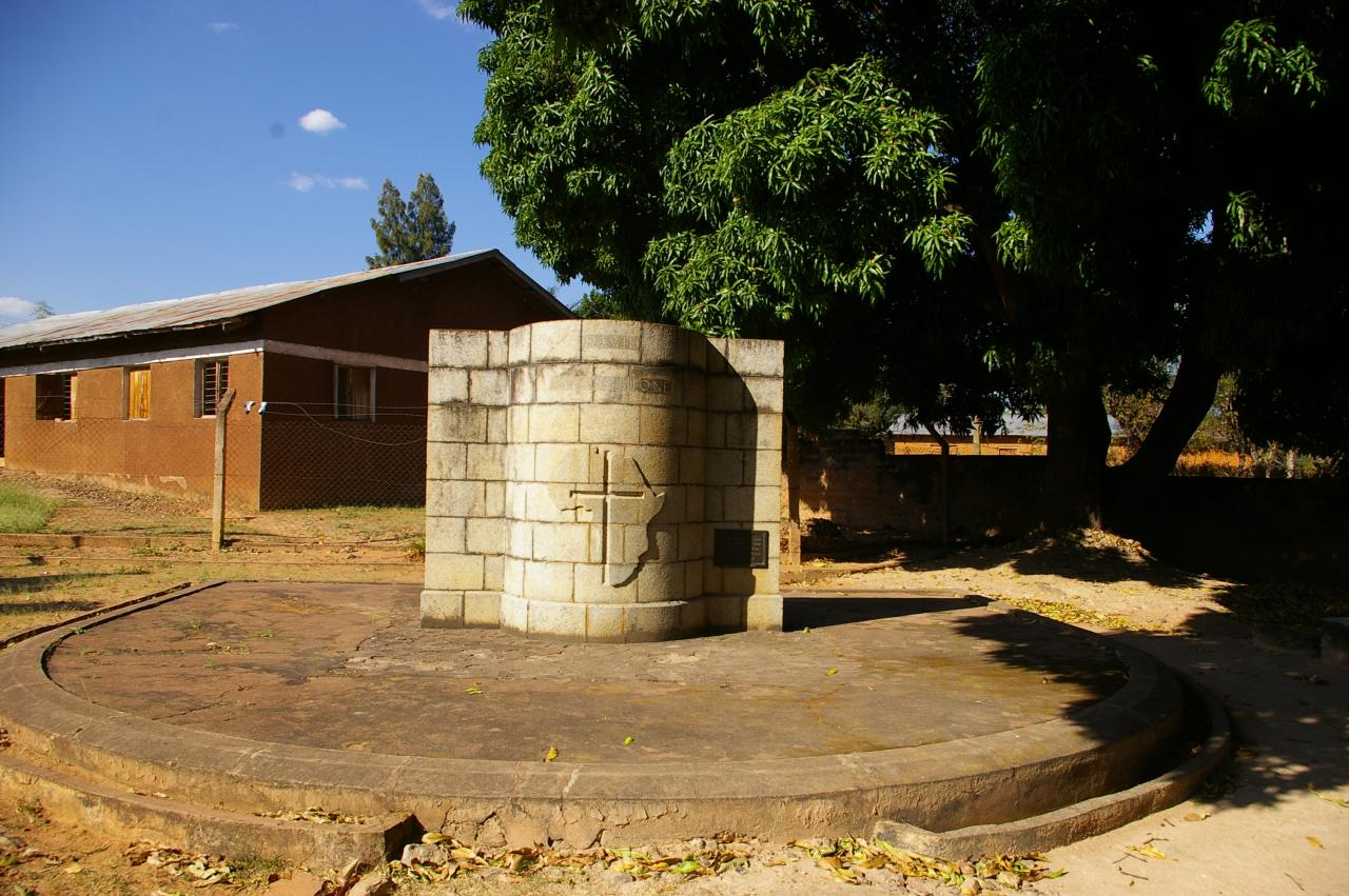 A monument known as the "Dr. Livingstone Memorial" was erected to commemorate the meeting between David Livingstone and Henry Morton Stanley. There is also a modest museum. There is a former slave route near the market.